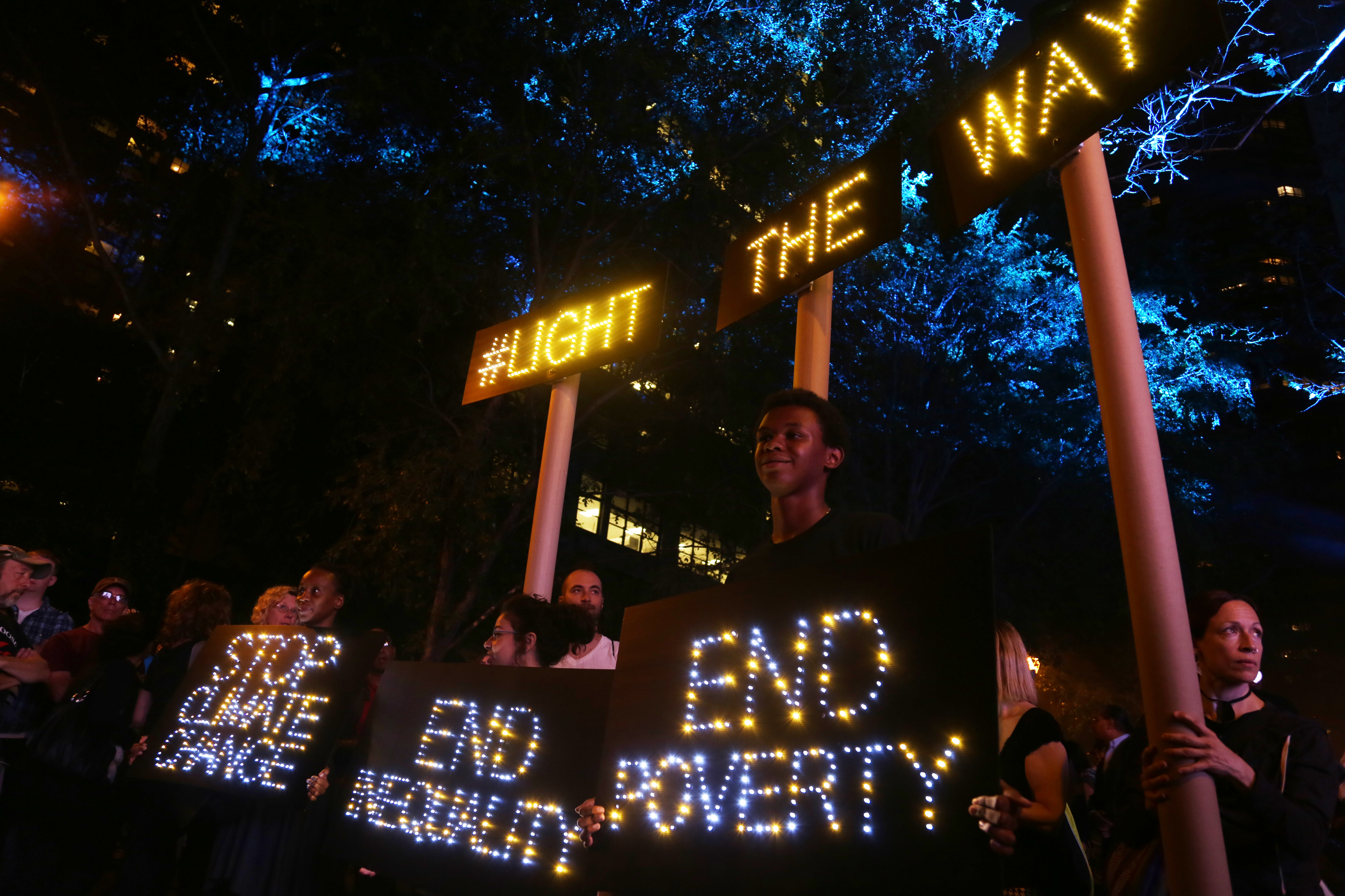 On the eve of the Sustainable Development Goals Summit, activists and campaigners come together near the UN building in New York for a global celebration called Light The Way. Organisers are running multiple events around the world. Picture: Marisol Grandon/Department for International Development